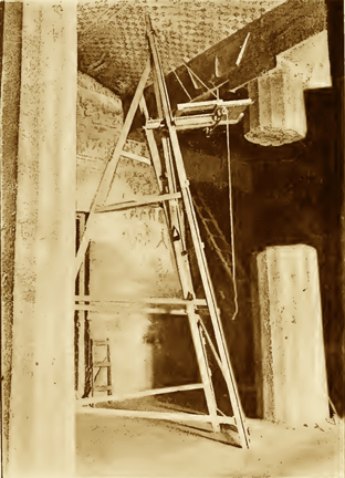 1891 photograph, tomb of Amenemhat at Beni Hasan showing ladder Newberry and assistant G. W. Fraser used to trace illustrations from wall.